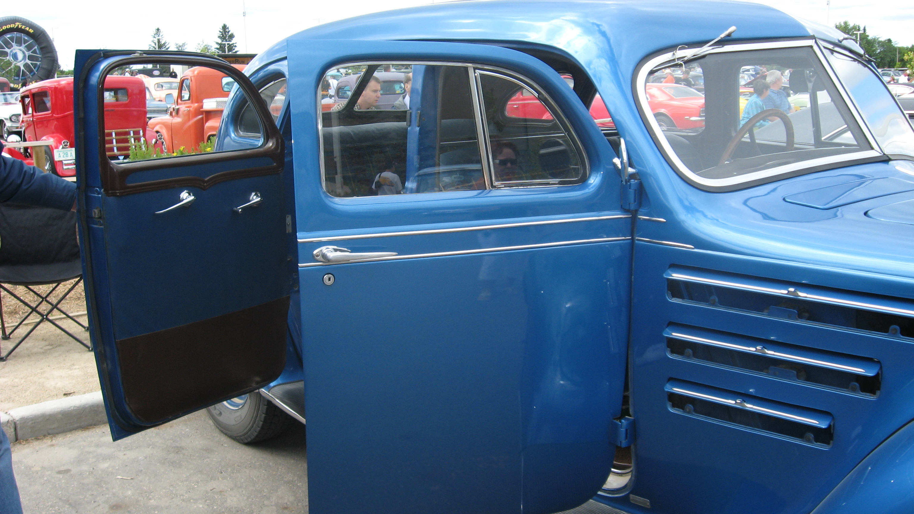 custom car, shot at local car show/swap meet